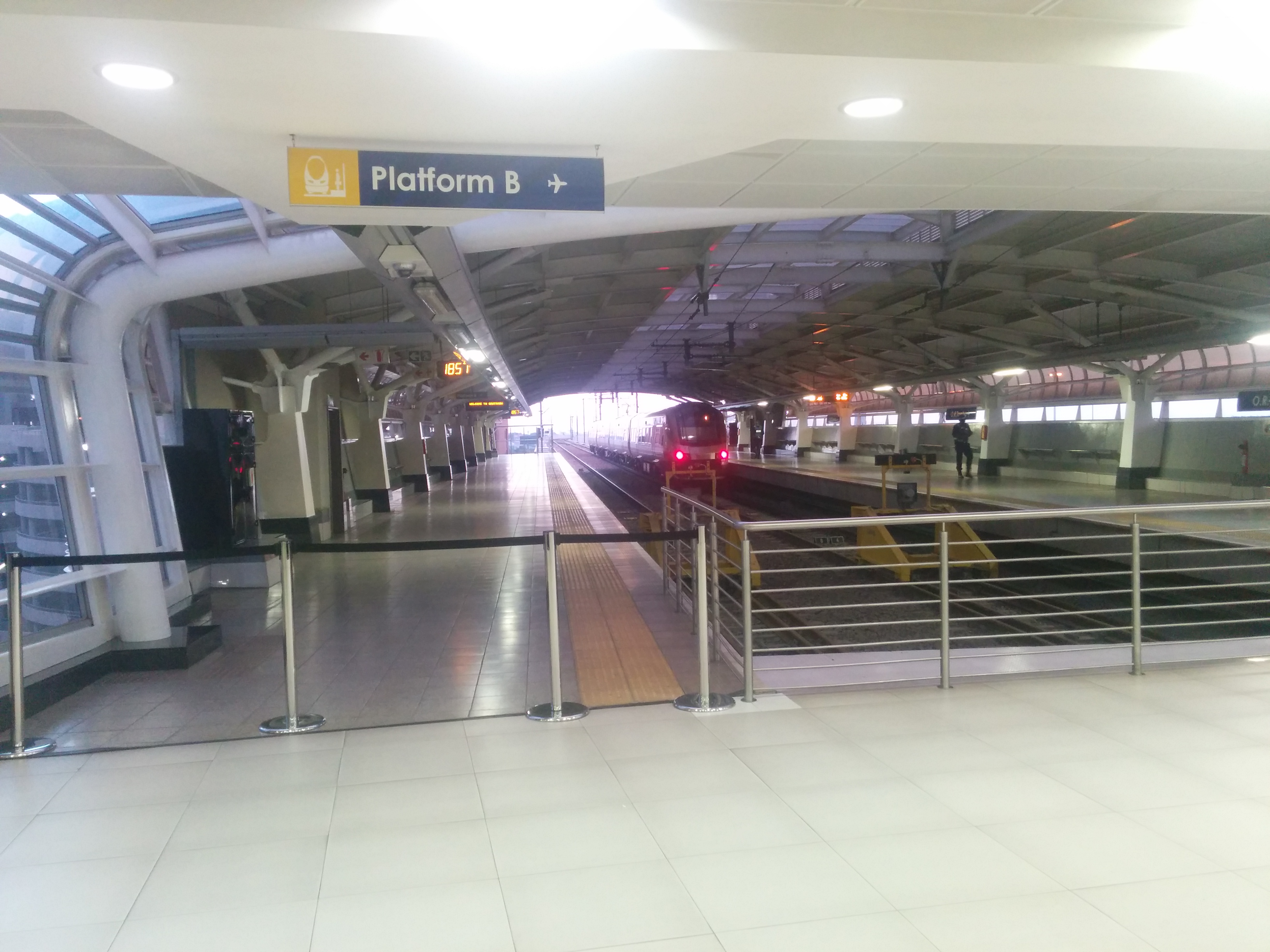 Gautrain leaving the Station at O.R. Tambo International Airport in Johannesburg.